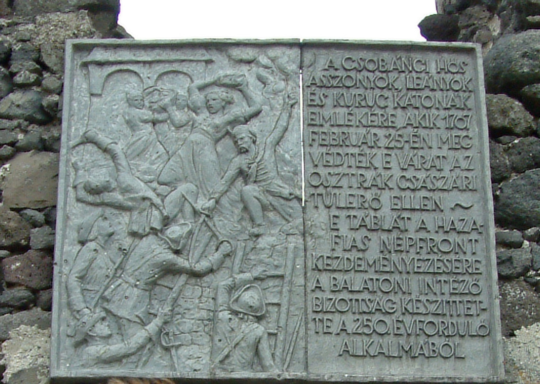 Inscription on the tablet, Csobánc